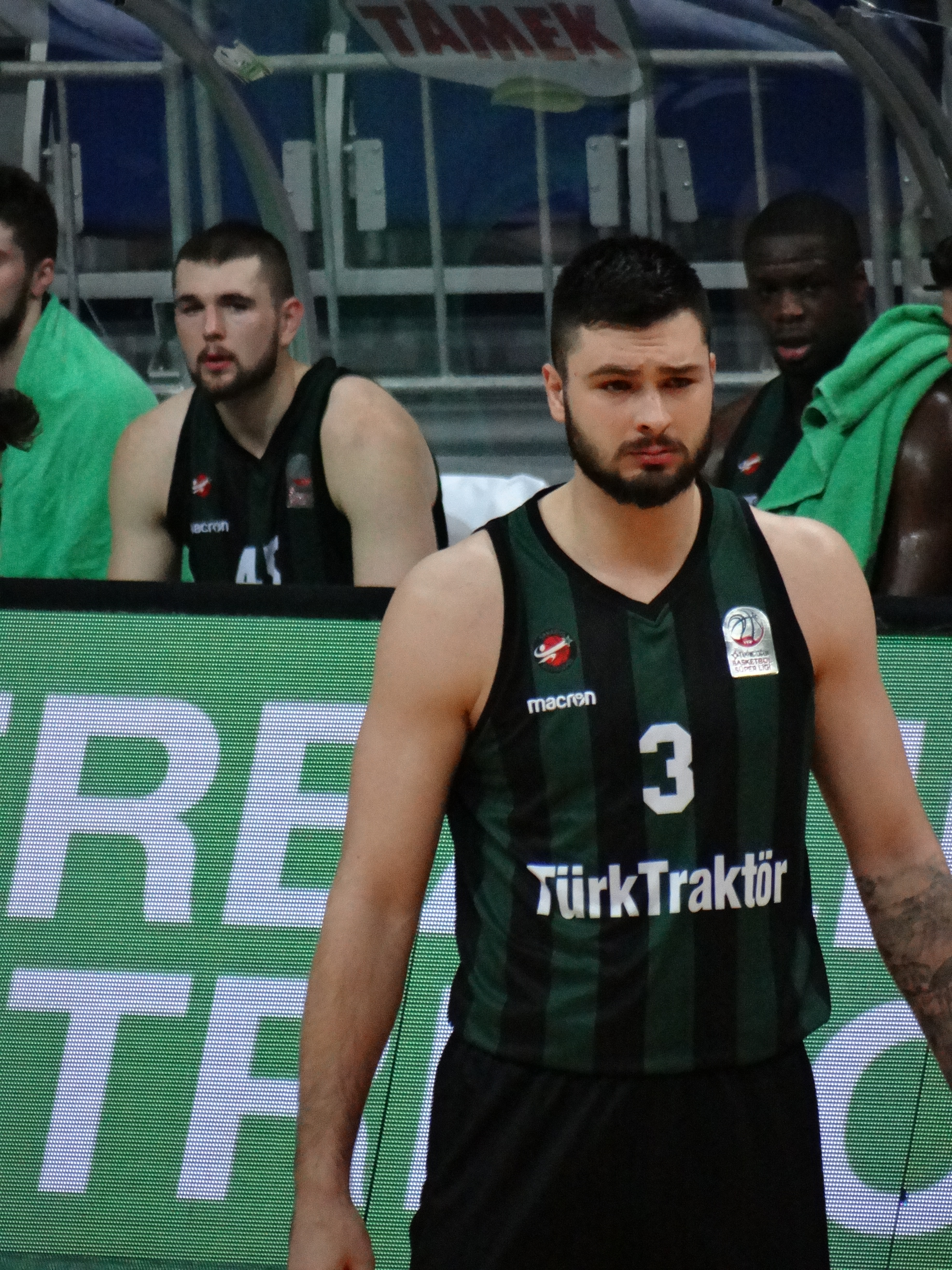 Nikola Janković (basketball) 3 Sakarya Büyükşehir Belediyespor 20180107